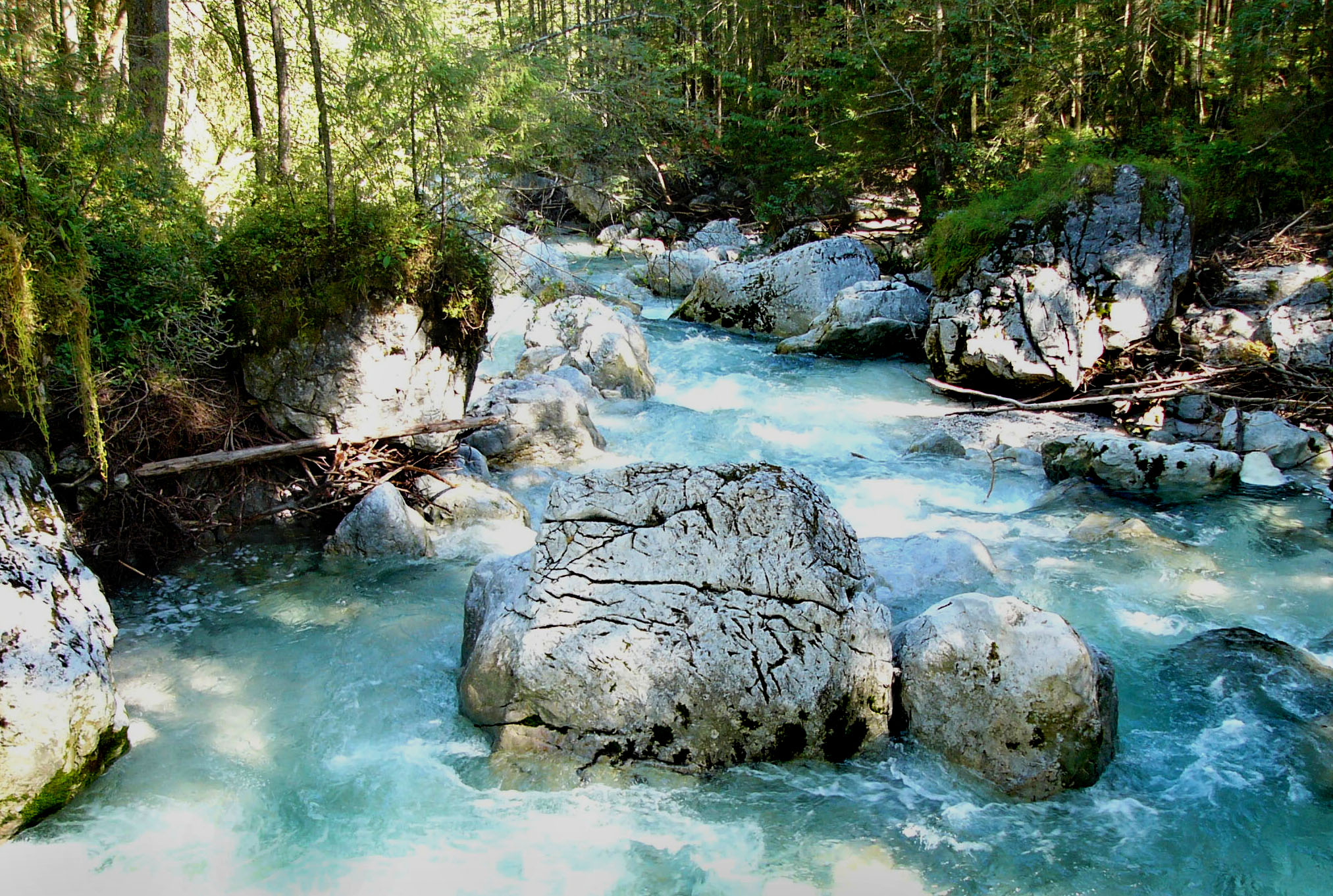 Ramsauer Ache, Zauberwald, Creek in Bavaria, Germany